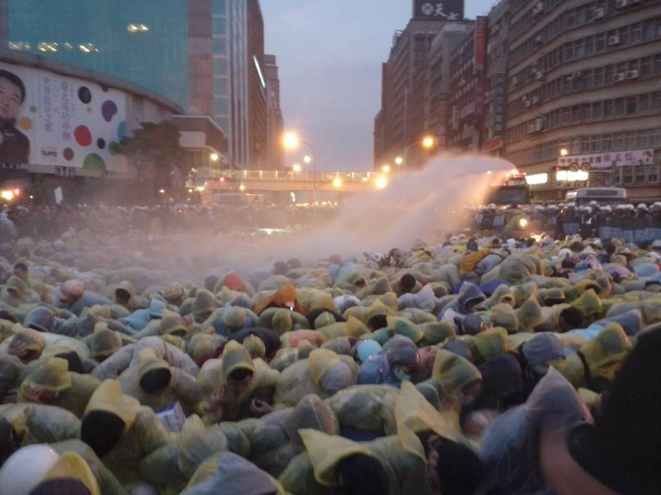 Anti-nuclear protesters sprayed by water cannons in Taipei, Taiwan on April 28, 2014